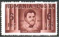 1937 Romanian Post, 6 lei, dark brown, representing Ion Creangă; Series:Ion Creangă